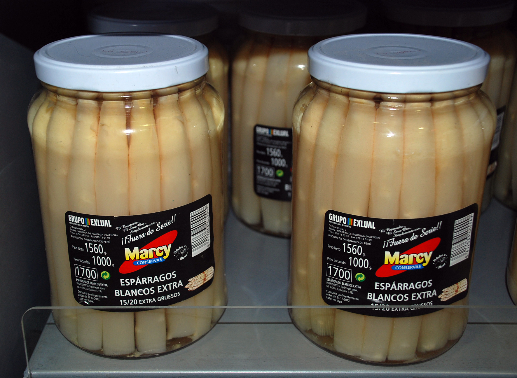 Economy and food in the province of Palencia: Asparagus canned in Herrera de Pisuerga (Palencia, Castille and León).